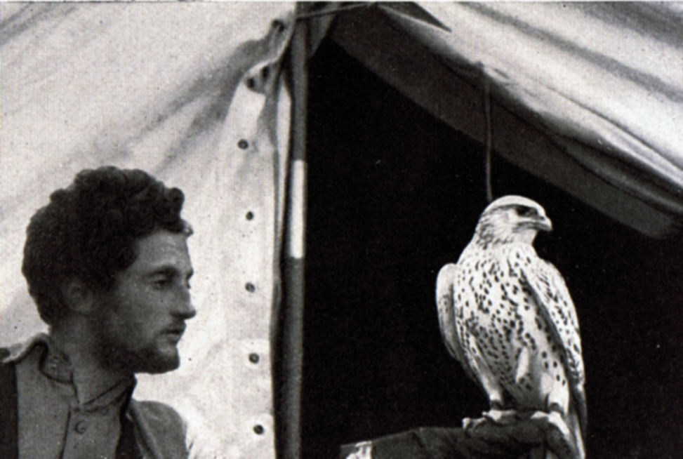 Hans-Robert Knoespel with a polar falcon during the Herdemerten-Greenland-Expedition 1938.